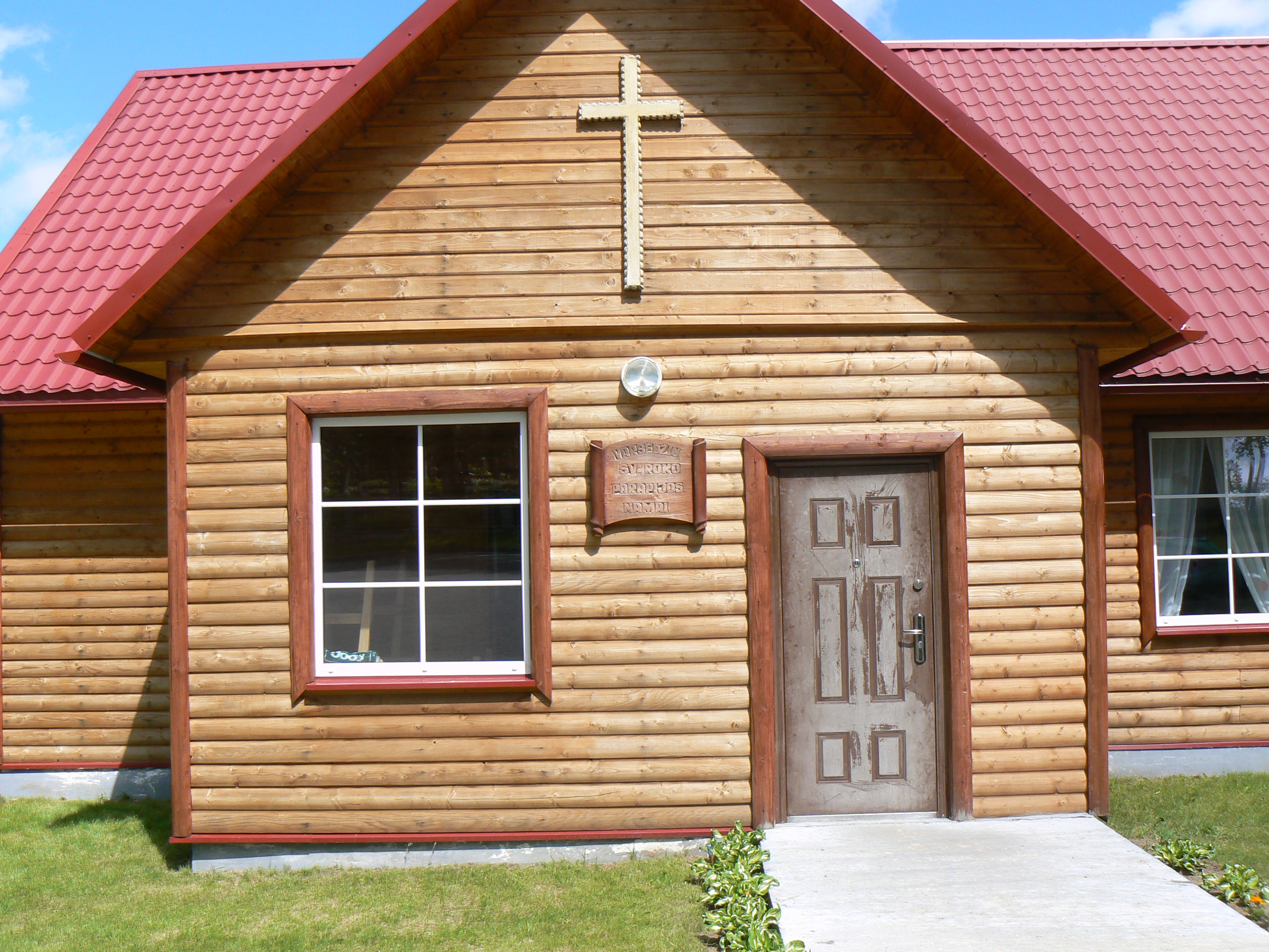 St. Rokas church's rectory in Varsėdžiai